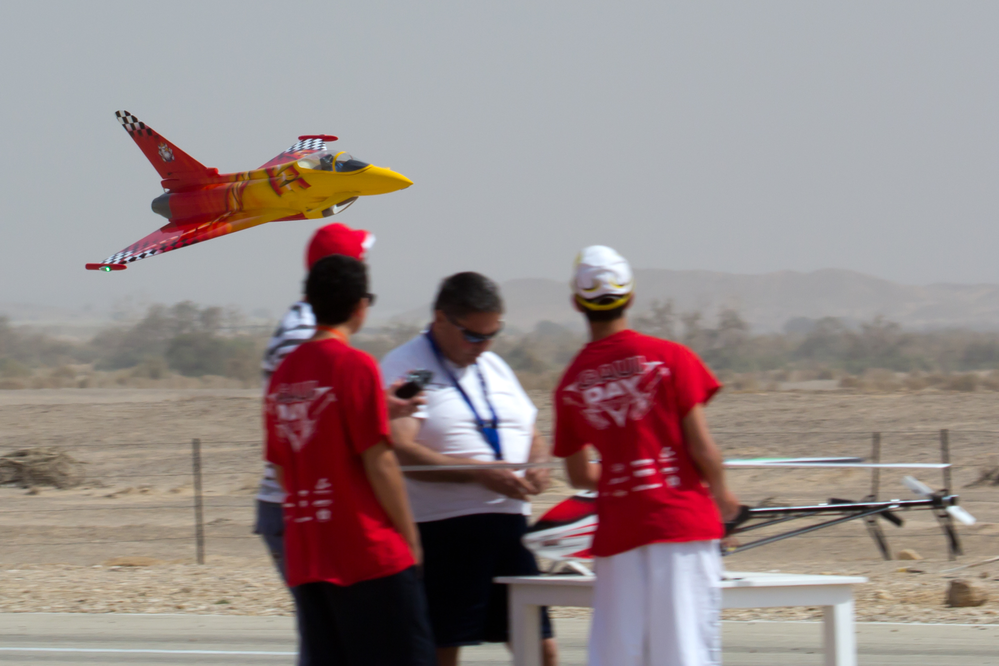 Arava Pam X radio-controlled aircraft meet at Ein Yahav, Israel, March 9, 2013